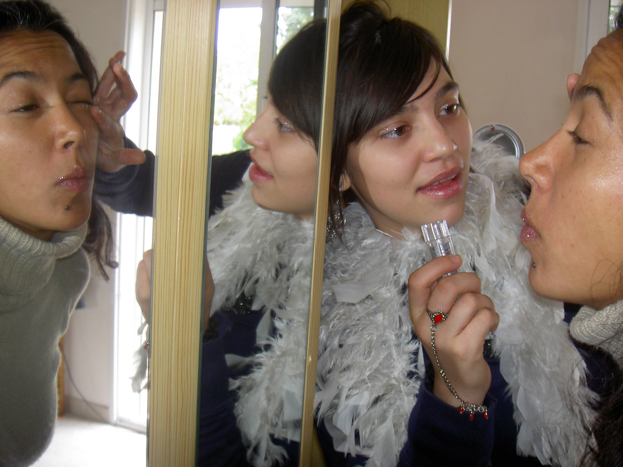 Lia Ruiz and Dufetele Ayni, Mexican feathered make-up, photo by Berengère Morucci.